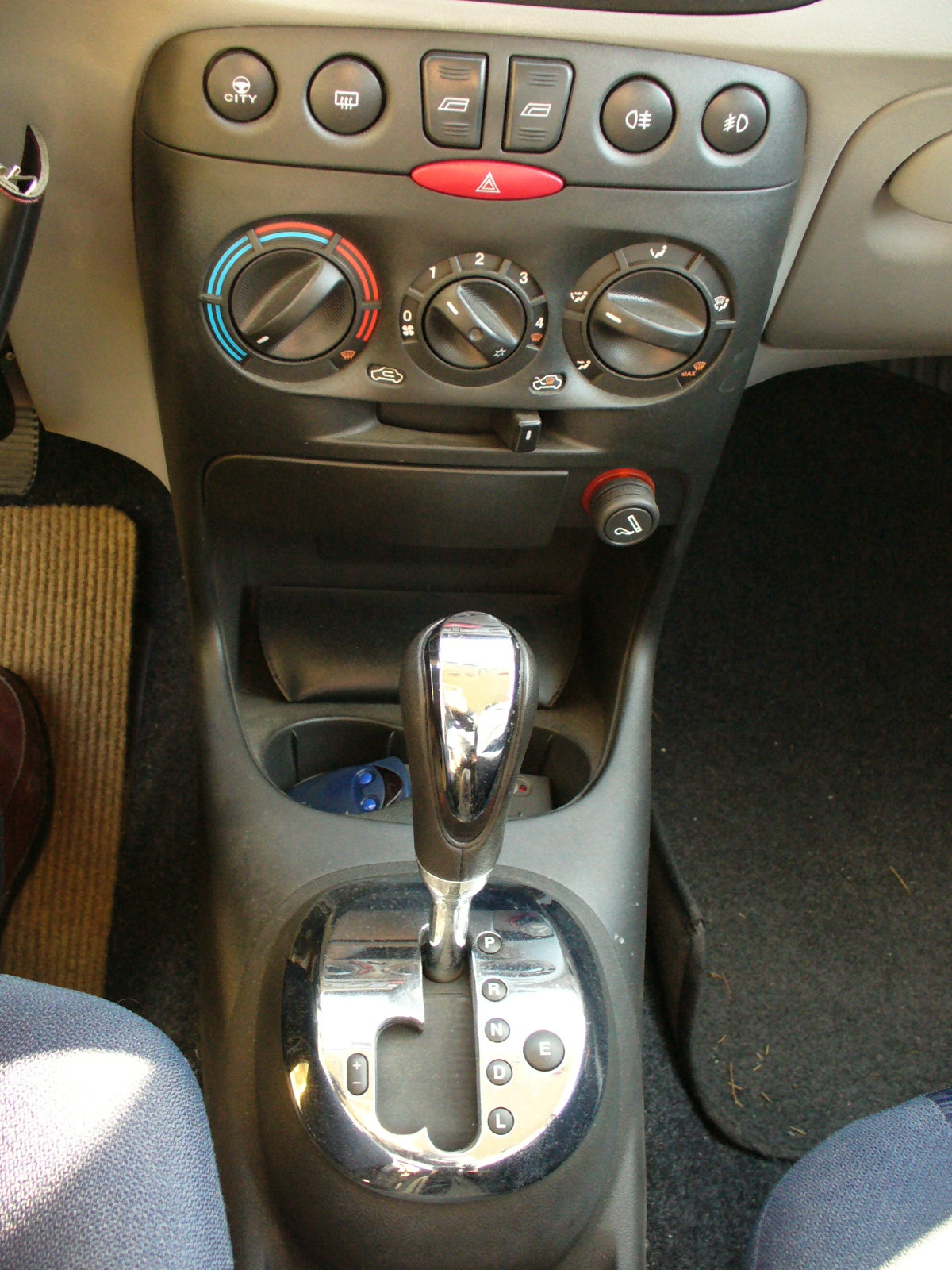 Control panel of a Fiat Punto